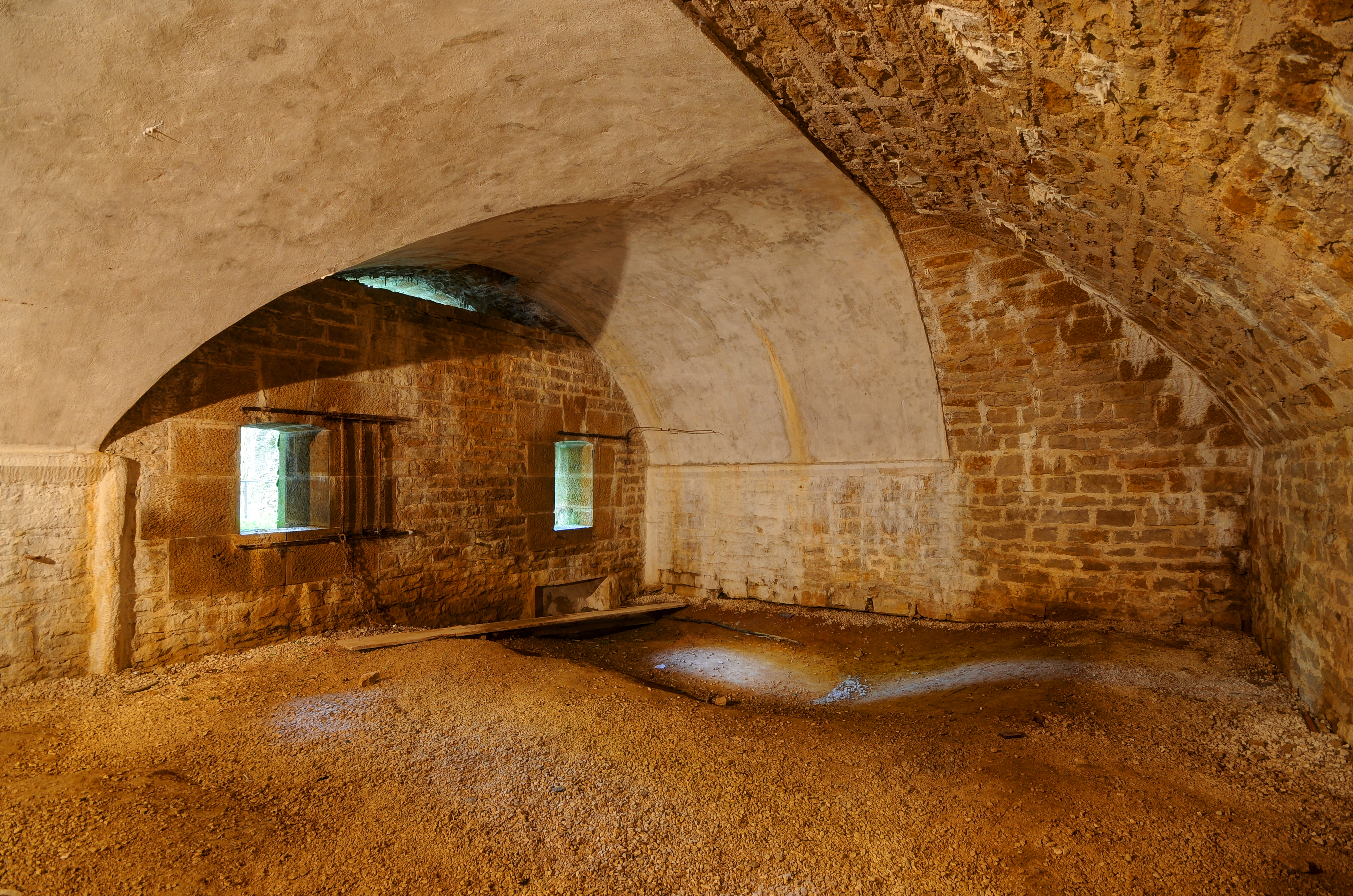 This photograph was taken with a Nikon D300 Fort du Cognelot : dans le coffre double d'escarpe (HDR).